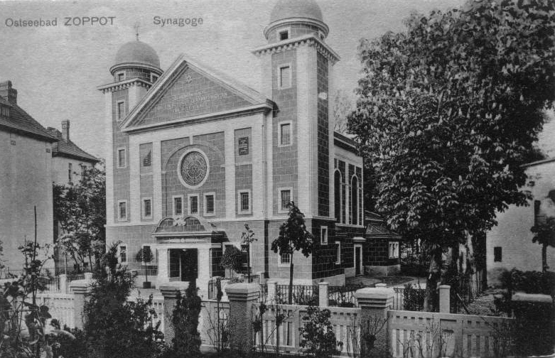 Synagogue of Sopot . Built in 1914, destroyed by the nasis in 1938